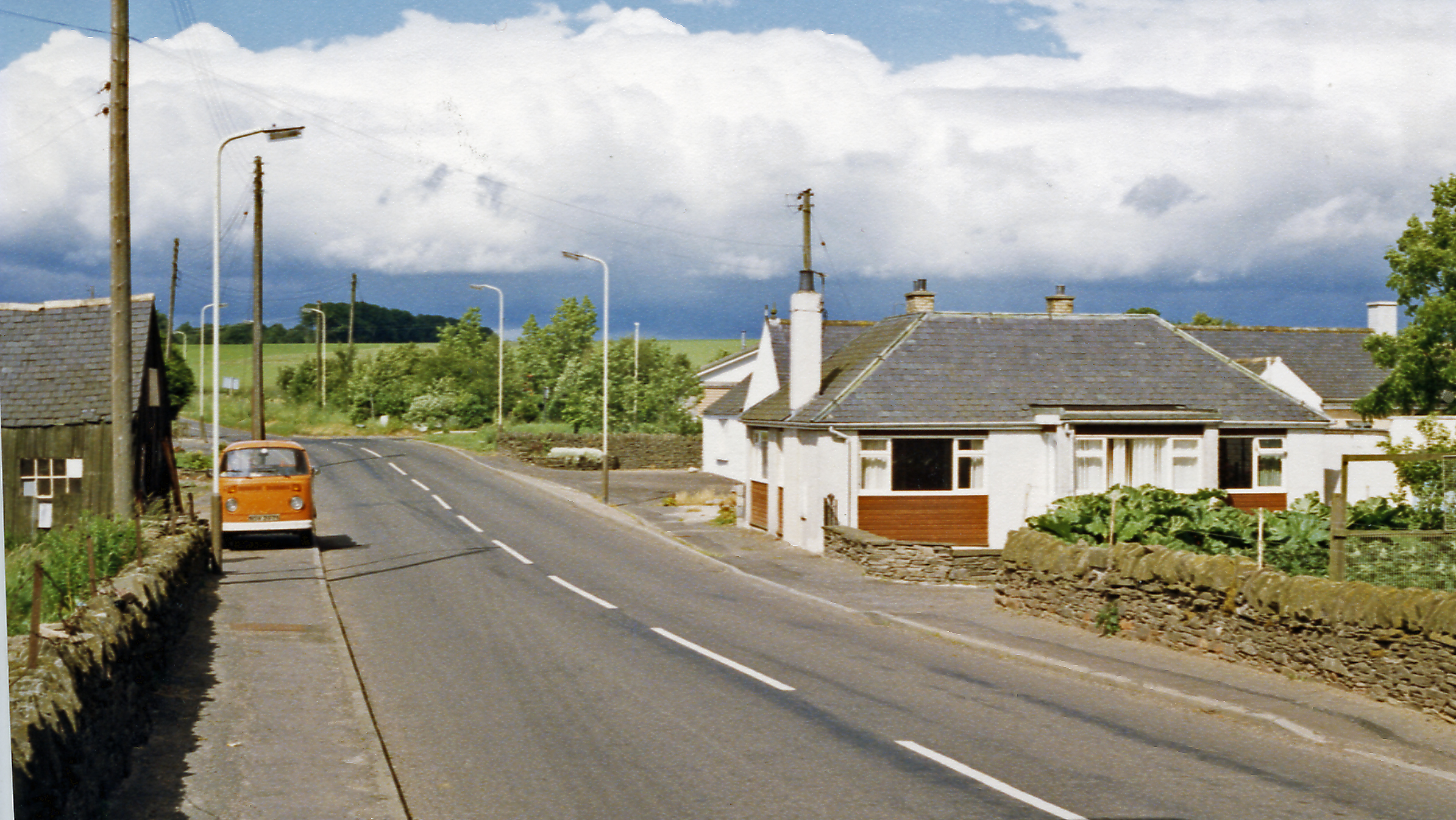 Site of Carmyllie station, 1988. View SW on B961, with the site of the station on the right: terminus of the ex-CR & NBR (Dundee & Arbroath) Joint branch, which ran SE from here to Elliot Junction. The branch was closed to passengers from 2/12/29, but remained for goods until 28/5/65.